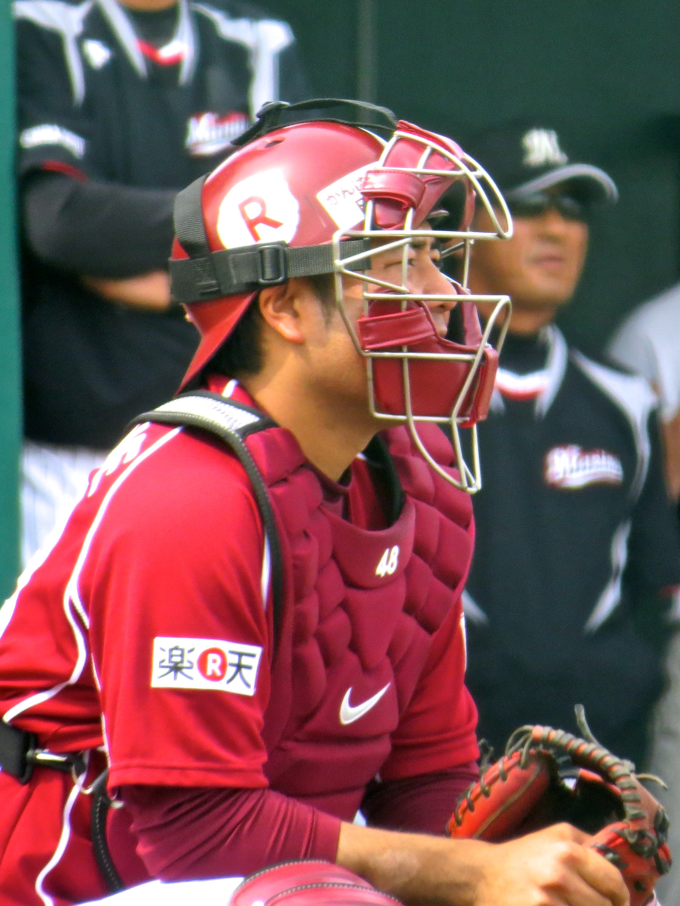 Tadashi Ishimine, catcher of the Tohoku Rakuten Golden Eagles, at Lotte Urawa Baseball Ground.